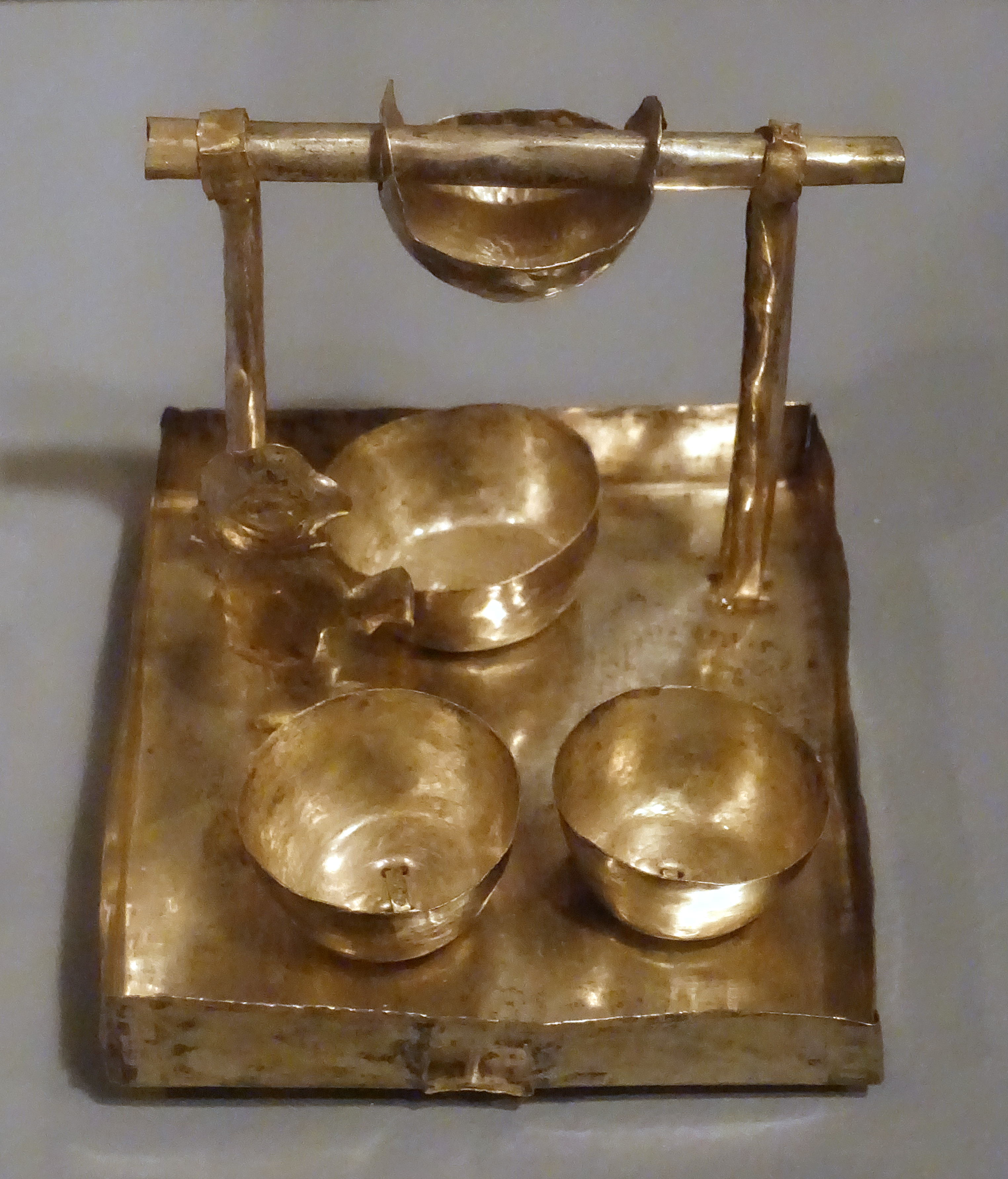 Exhibit in the Krannert Art Museum, University of Illinois at Urbana-Champaign - Urbana-Champaign, Illinois, USA. This work is old enough so that it is in the public domain.